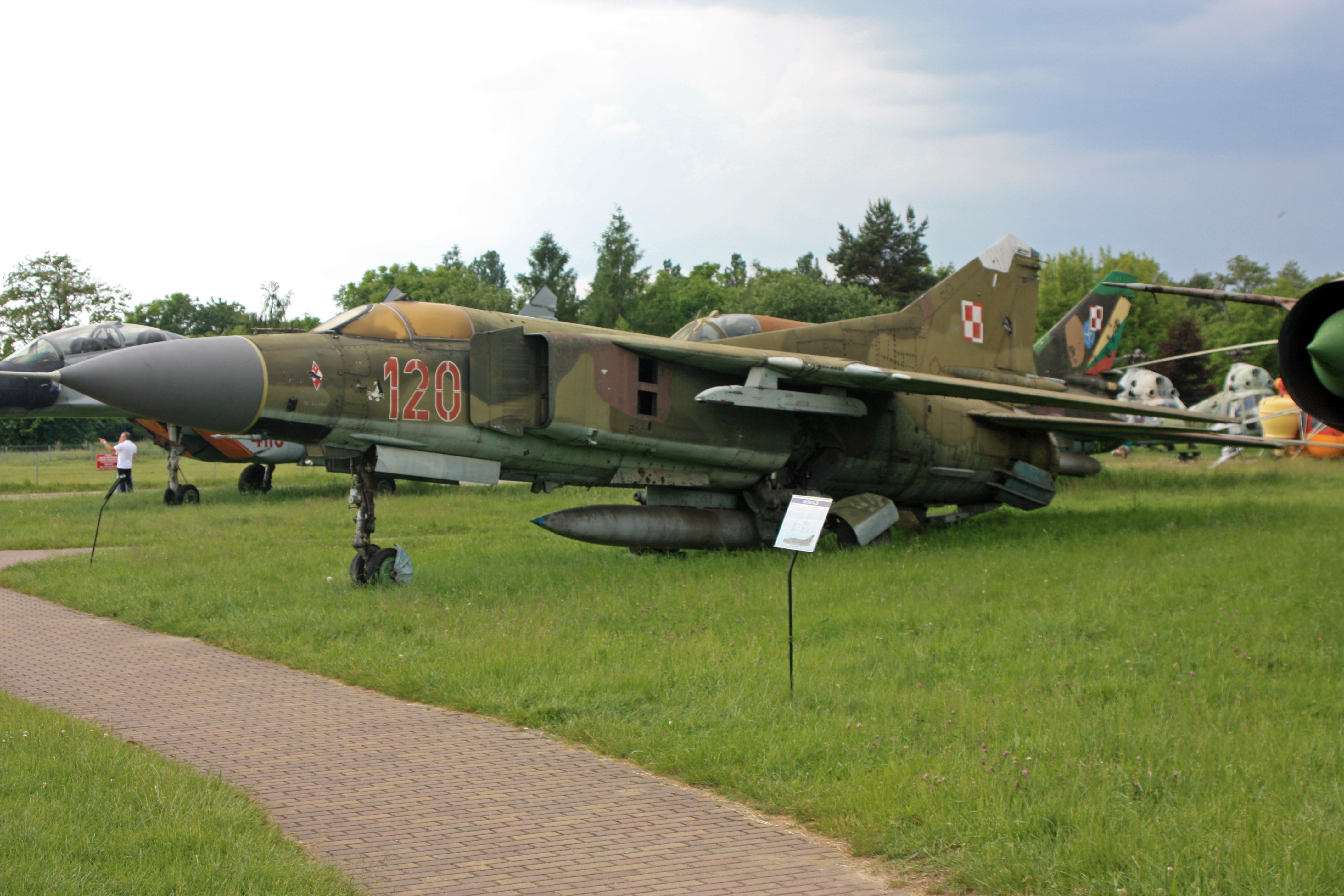 MiG-23 at the Polish Aviation Museum in Krakow - tactical no. 120 serial no. 0390217120